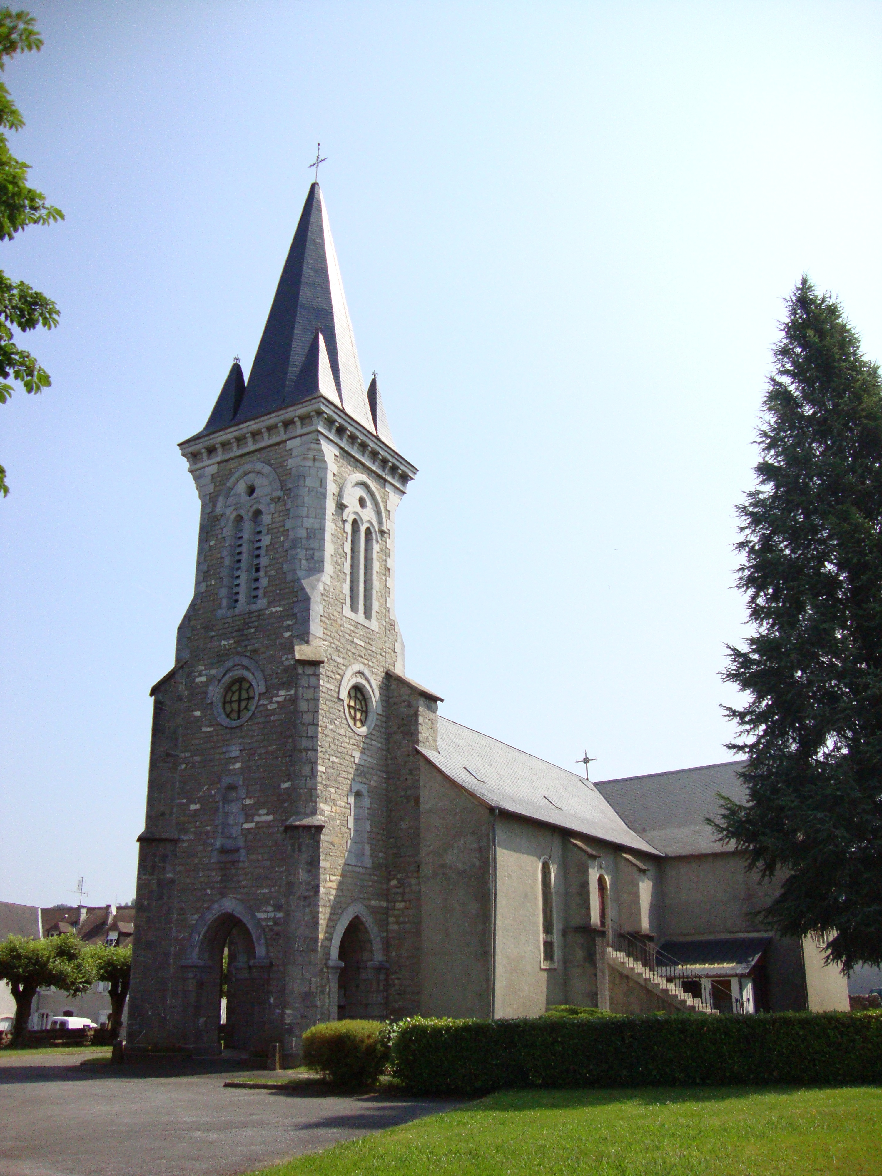 Chéraute (Pyr-Atl, Fr) church